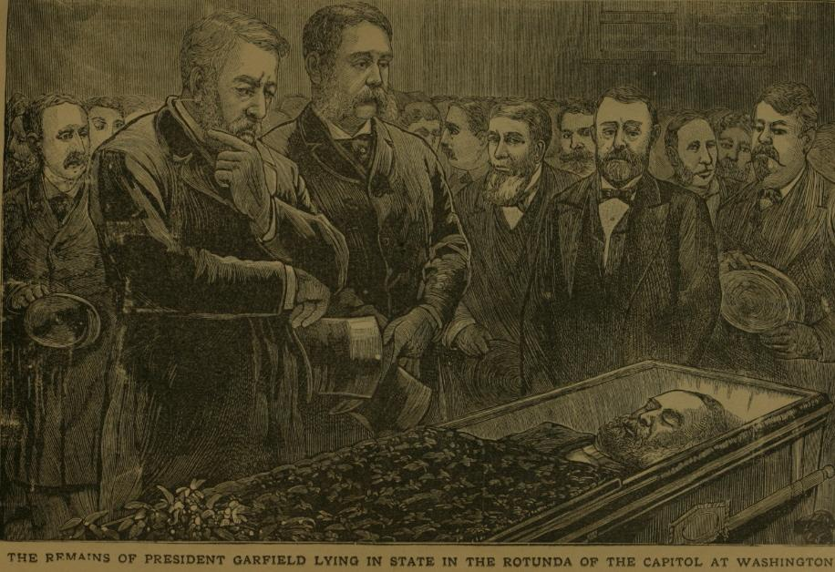 U.S. President Garfield's corpse lying in state at the U.S. Capitol. Chester A. Arthur, who became President on Garfield's death, standing at center.